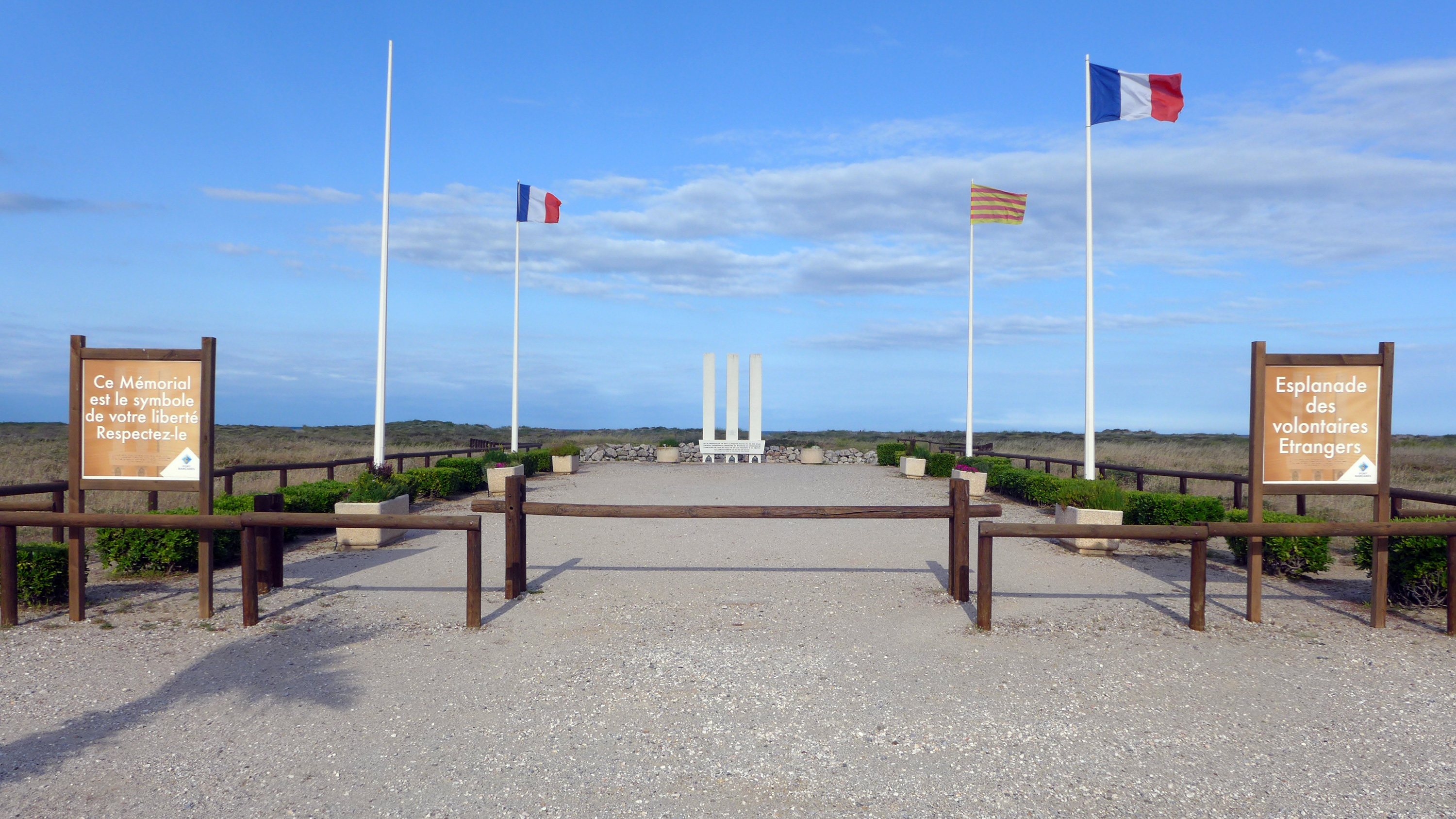 Le Barcarès Memorial